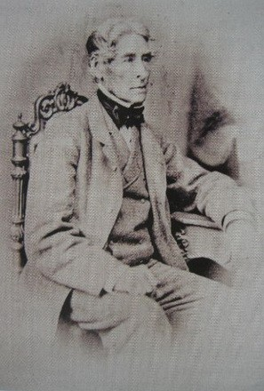 Portrait of John Douglass, 14th Lord of Tilquhillie (1803-1870)